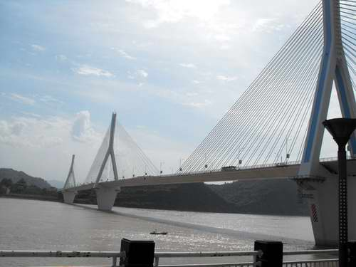 Yichang Yiling Yangtze River Bridge. Located next to downtown Yichang.